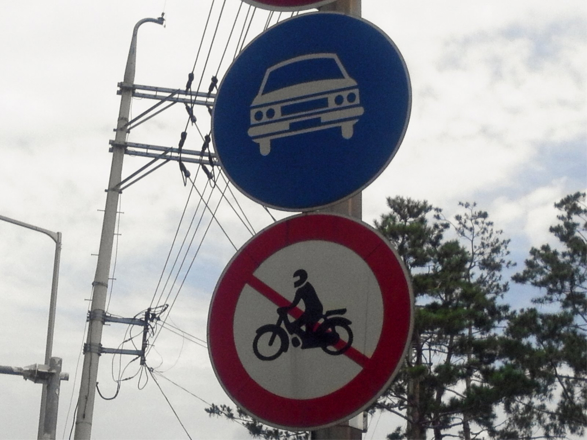 Korea Sign - Vehicles Only and No Thoroughfare for Motorcycles and Mopeds (old)